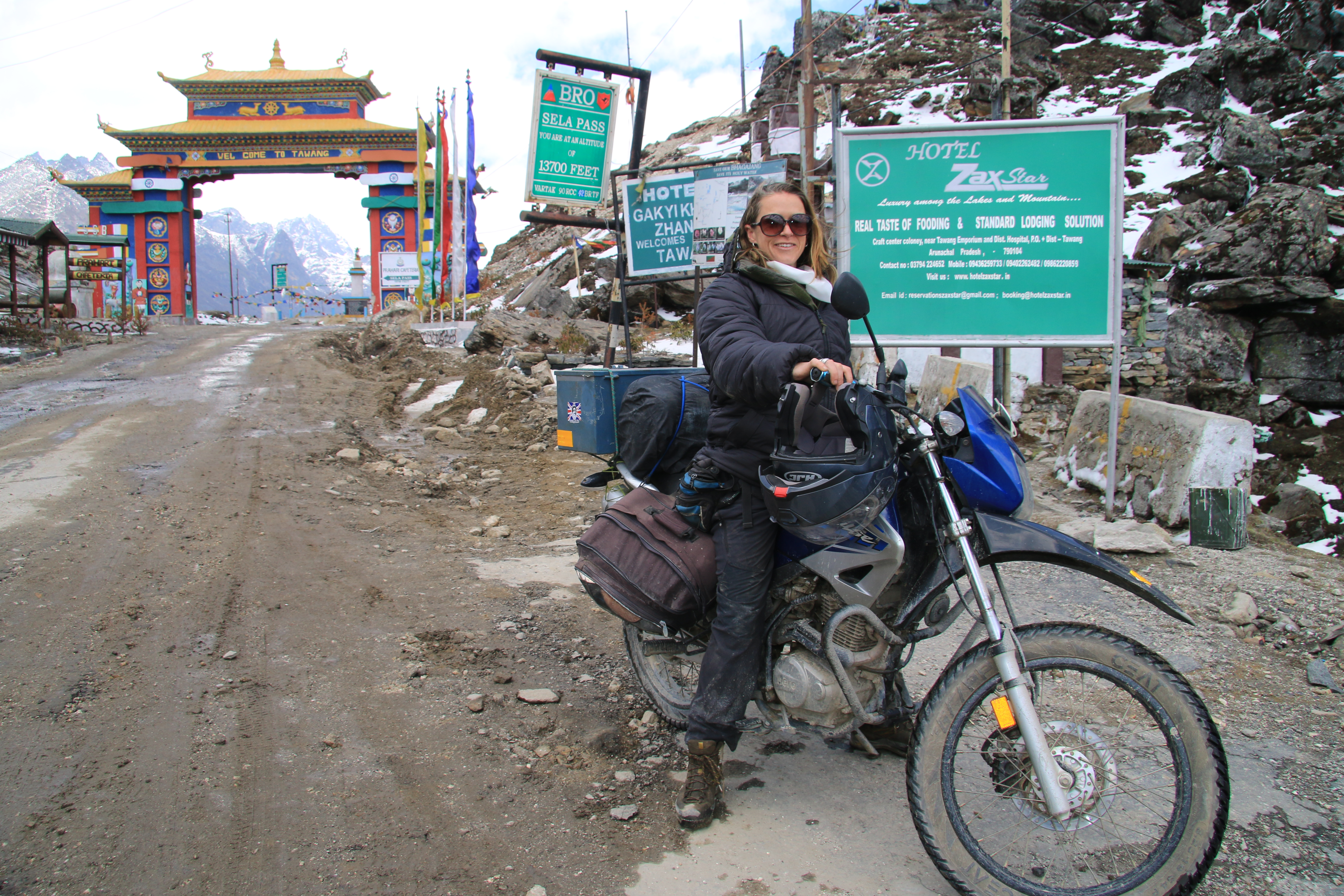 The author Antonia Bolingbroke-Kent during her travels across the Indian state of Arunachal Pradesh